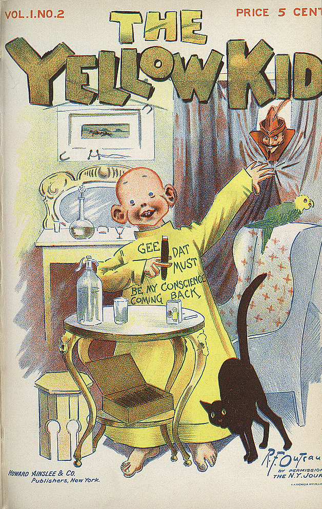 The Yellow Kid